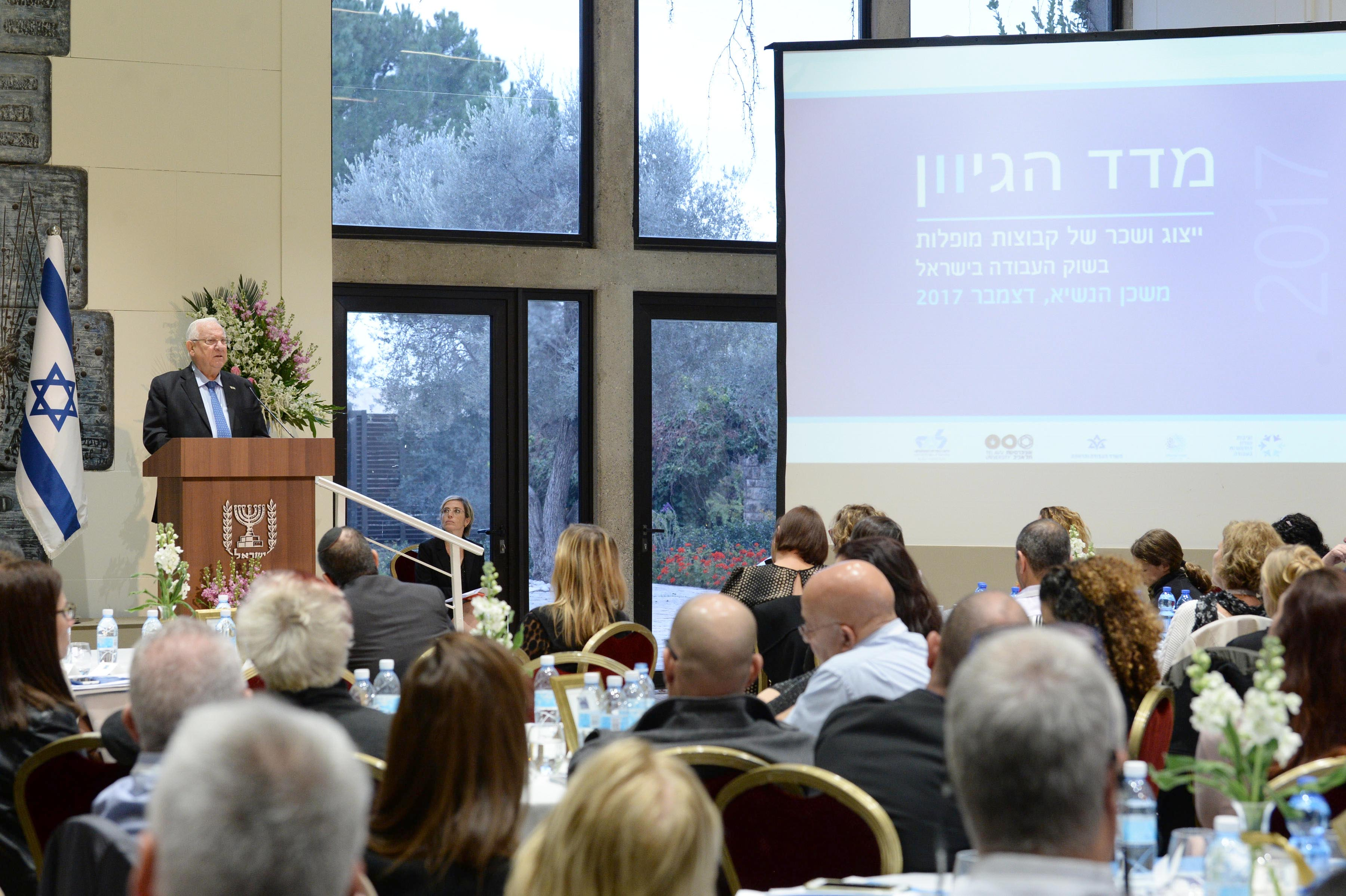 President of Israel, Reuven Rivlin, receives the "Diversity Indices" in employment, which also includes an examination of the academy as an employer. Wednesday, December 27, 2017. Photo Credit: Mark Neyman / GPO. Depicted person: Reuven Rivlin – Israeli politician, 10th President of Israel